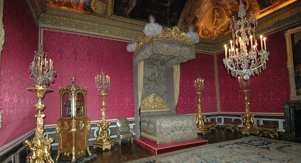 A picture of "Salon de Mercure", a room in Château de Versailles, France.